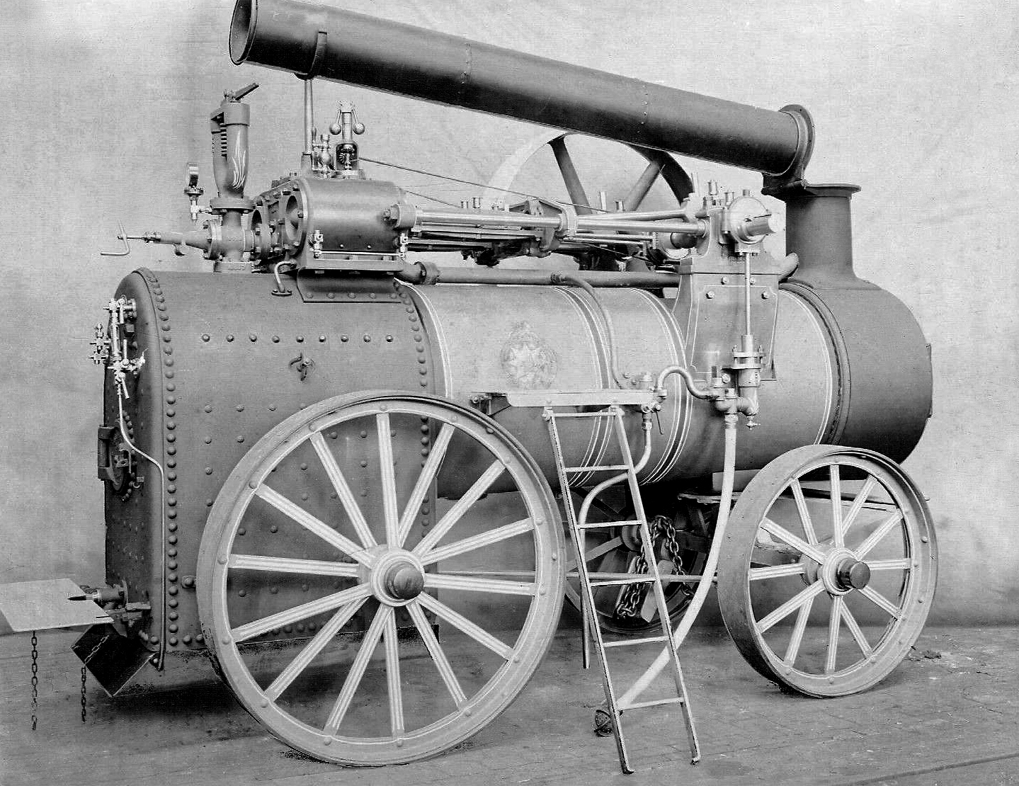 A portable compound steam engine by Messrs. Robey & Co Ltd, Lincoln, England, typical of those produced by the company in the mid-1890s.